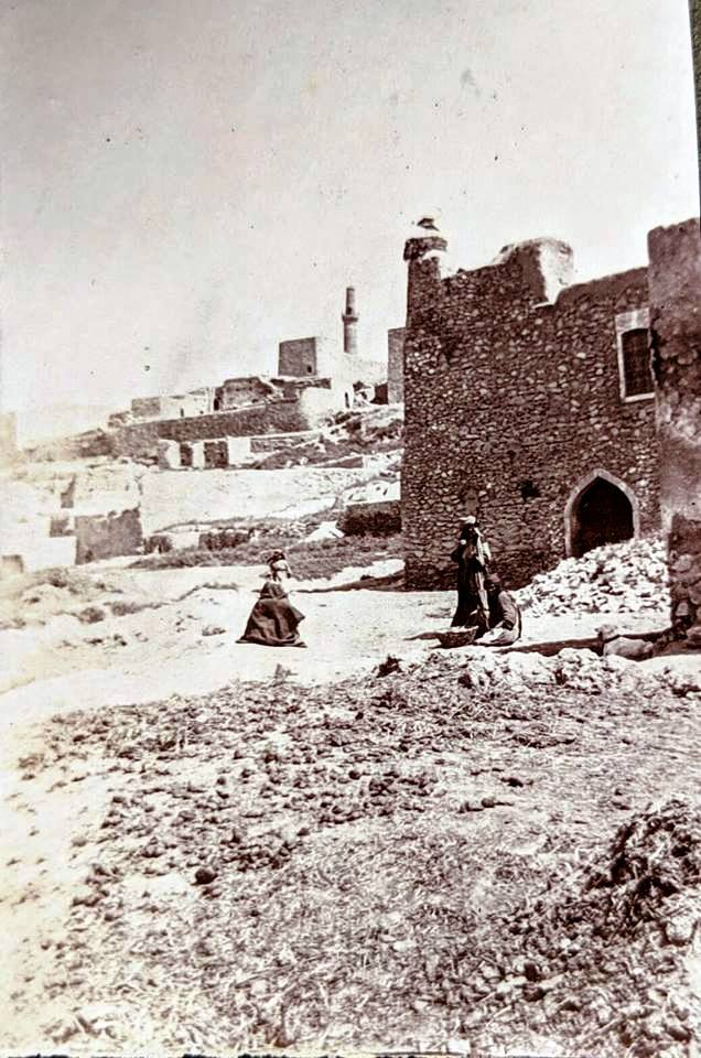 Mosul, Iraq, World War I, 1916-1919